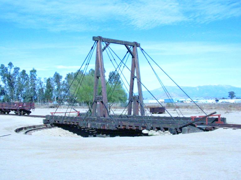 A railroad turntable at the Orange Empire Railway Museum in Perris. Photo by Sean Lamb (User:Slambo), November 29, 2003